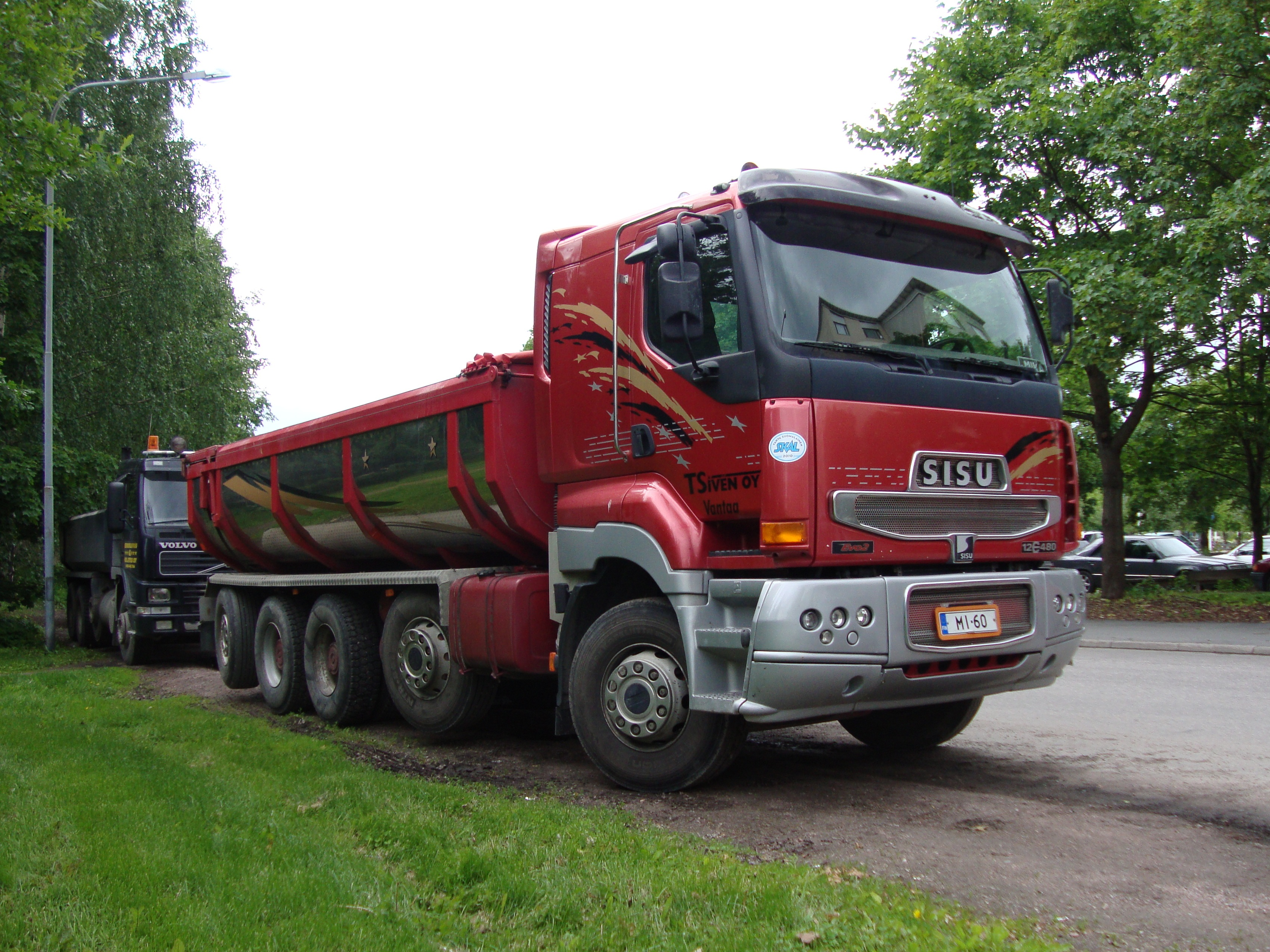 Sisu truck in Kerava, Finland